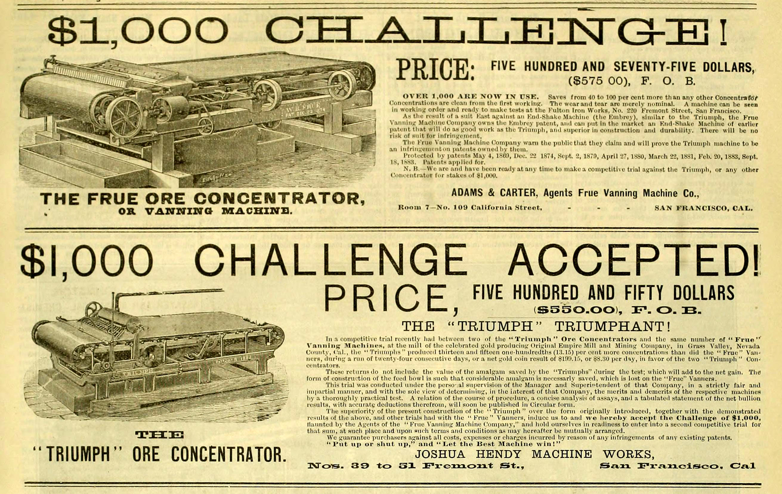 Adjacent advertisements for two competing ore concentrators of the late 19th century, the Frue Vanner and the Triumph Ore Concentrator.